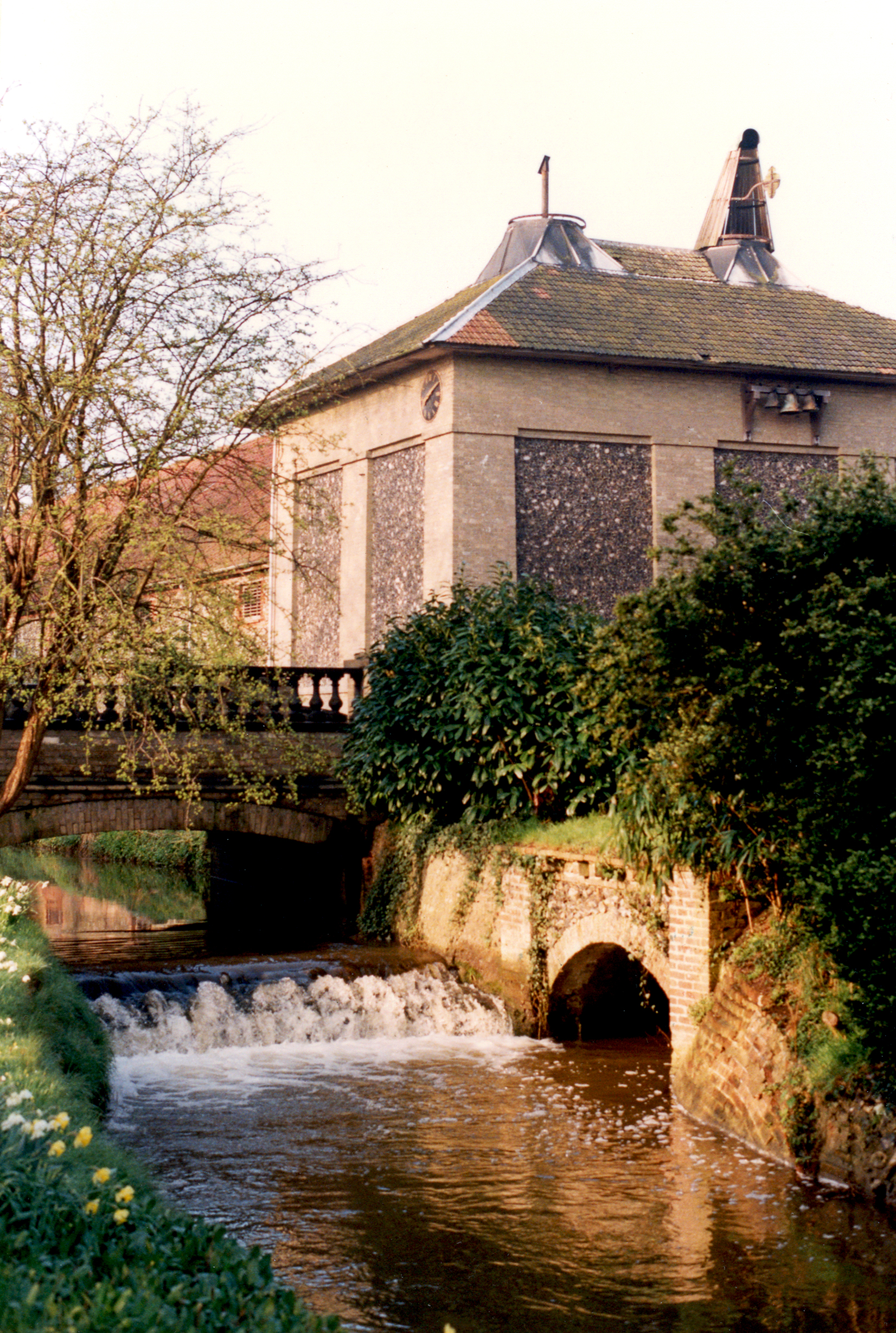 The early-19th-century malt-kilns of the Letheringsett Brewery built by William Hardy junior stand beside the River Glaven in north Norfolk, England. The 18th-century malthouse of the Hardys can be glimpsed in the background. The cascade mirrors the fall for the waterwheel built by William Hardy in 1784 under the brewery yard when converting his maltings and brewery to water power, as recorded by his wife, the diarist Mary Hardy.